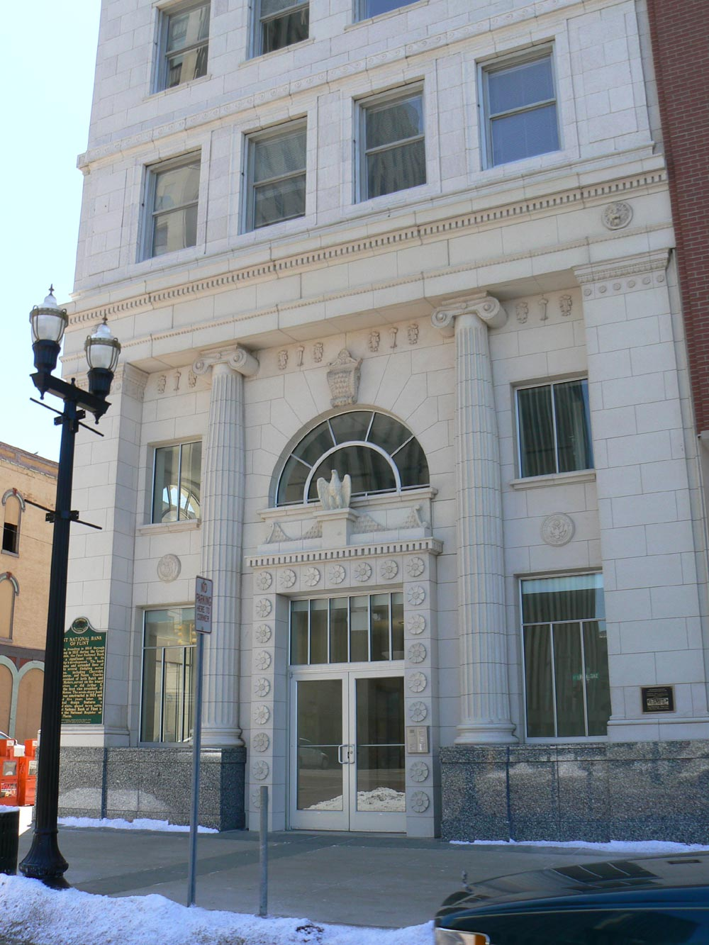 The recently renovated historic First National Bank building in Flint, Michigan, United States, is listed on the US National Register of Historic Places (NRHP).